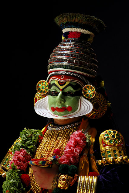 Bobinson K B (freebird.in), Dhuryodhana Vadham Kathakali Performance, Kochi, India